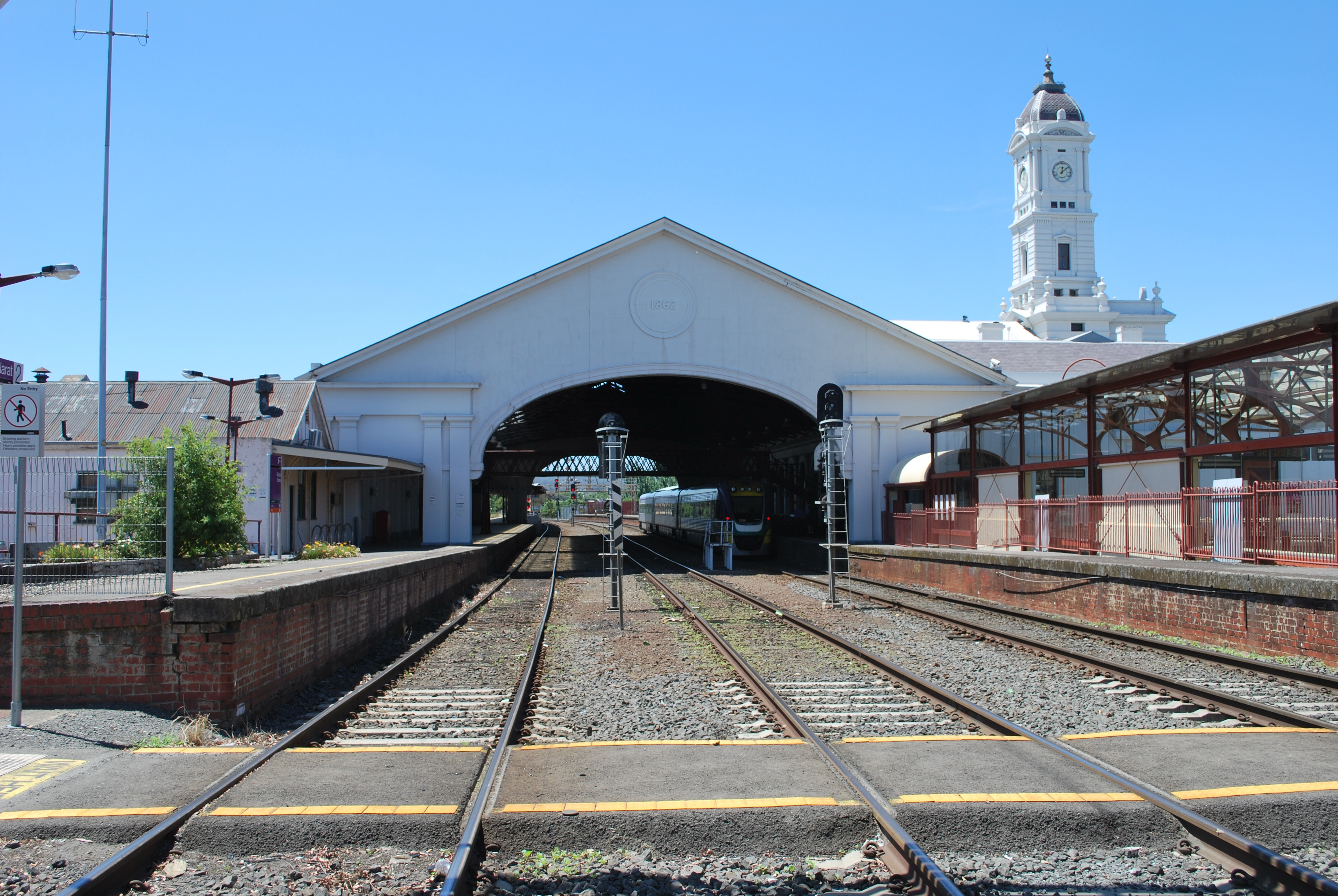 Ballarat railway station at Ballarat, Australia